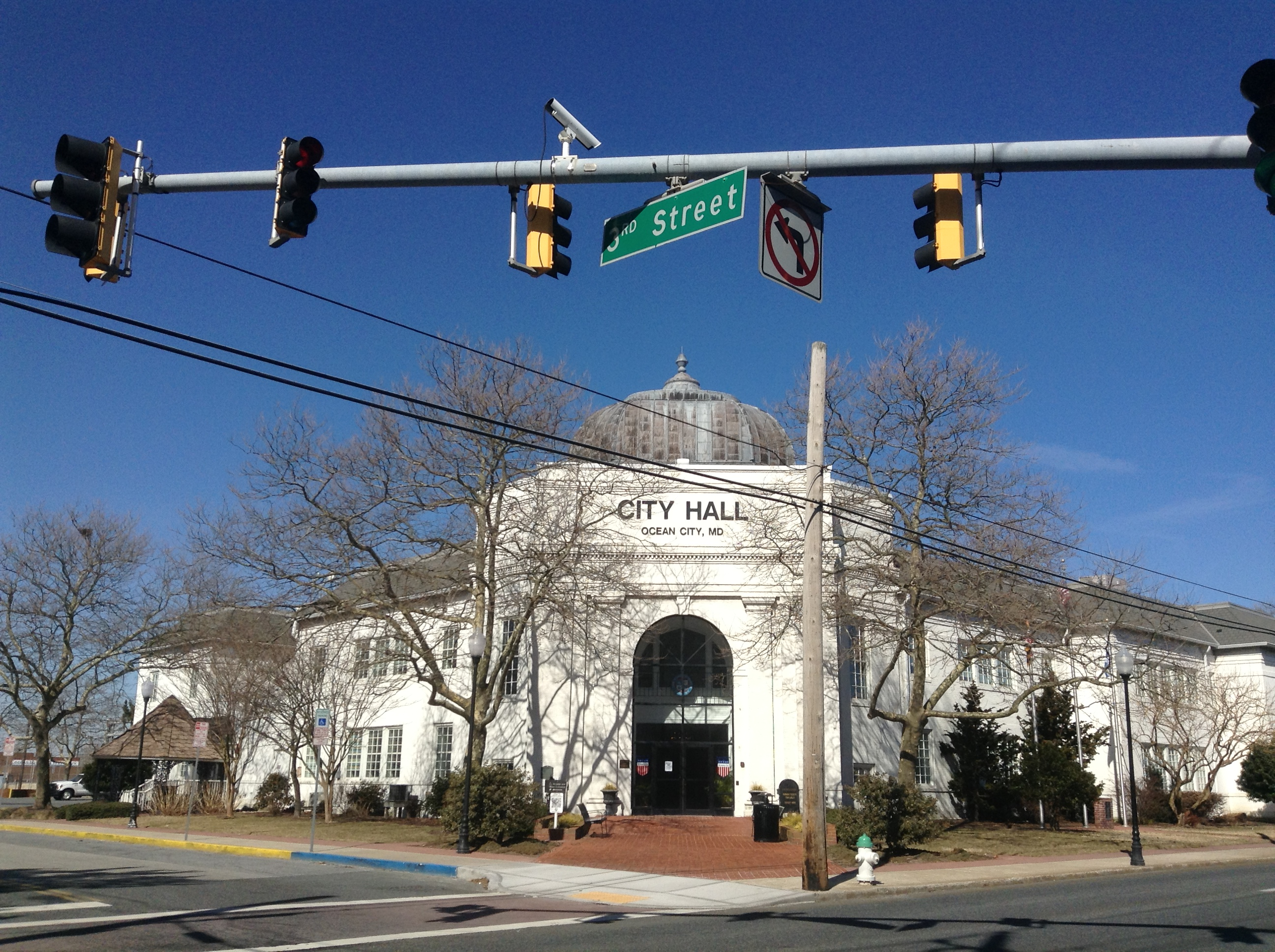 An image of the city hall of Ocean City, MD.